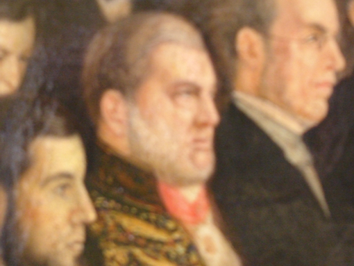 Eusébio de Queirós Matoso, Brazilian Minister of Justice Affairs from 1848 to 1852-1850. Authored and enforced the law that banished slave trade from Africa to Brasil.